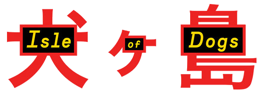 "Isle of Dogs" movie logo (horizontal).